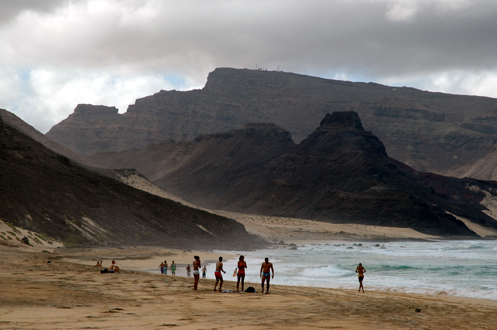 São Vicente Island, Cape Verde. The beach of Praia Grande and Monte Verde in the background Photo taken by Henryk Kotowski in November 2005.